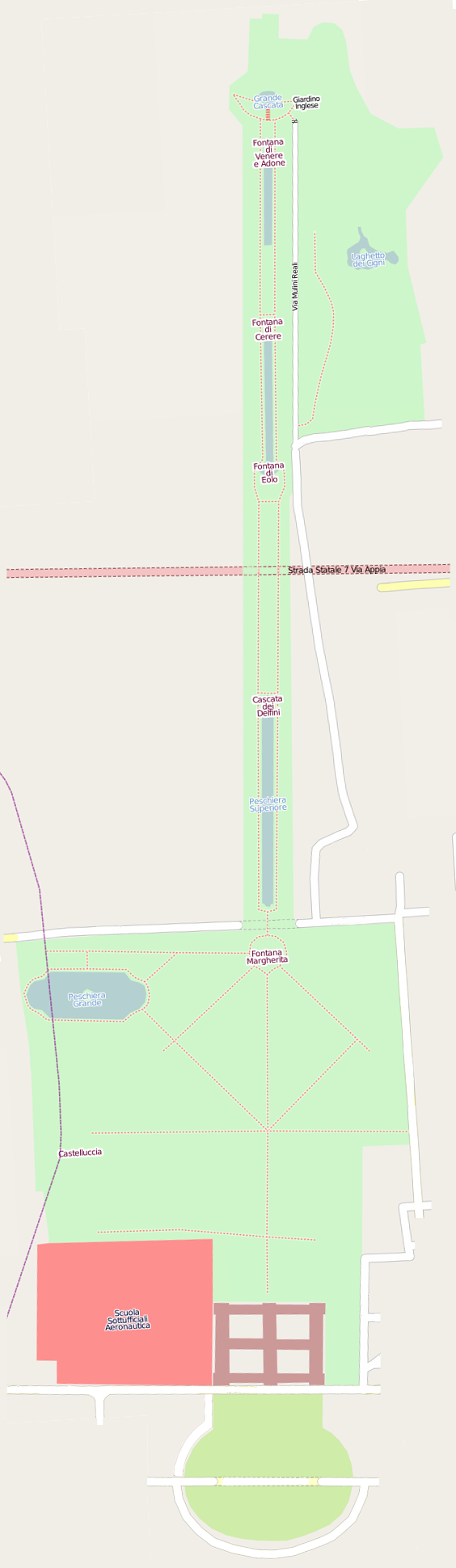 This map may be incomplete, and may contain errors. Don't rely solely on it for navigation.